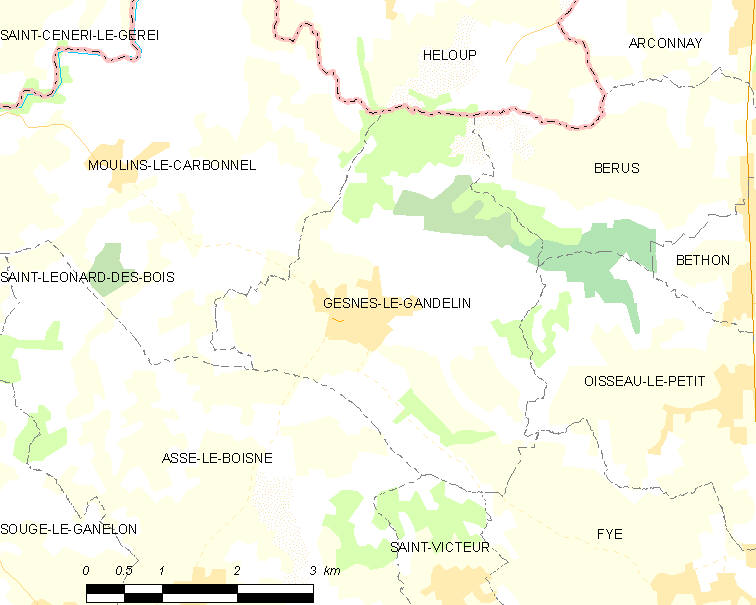 Map of French municipality